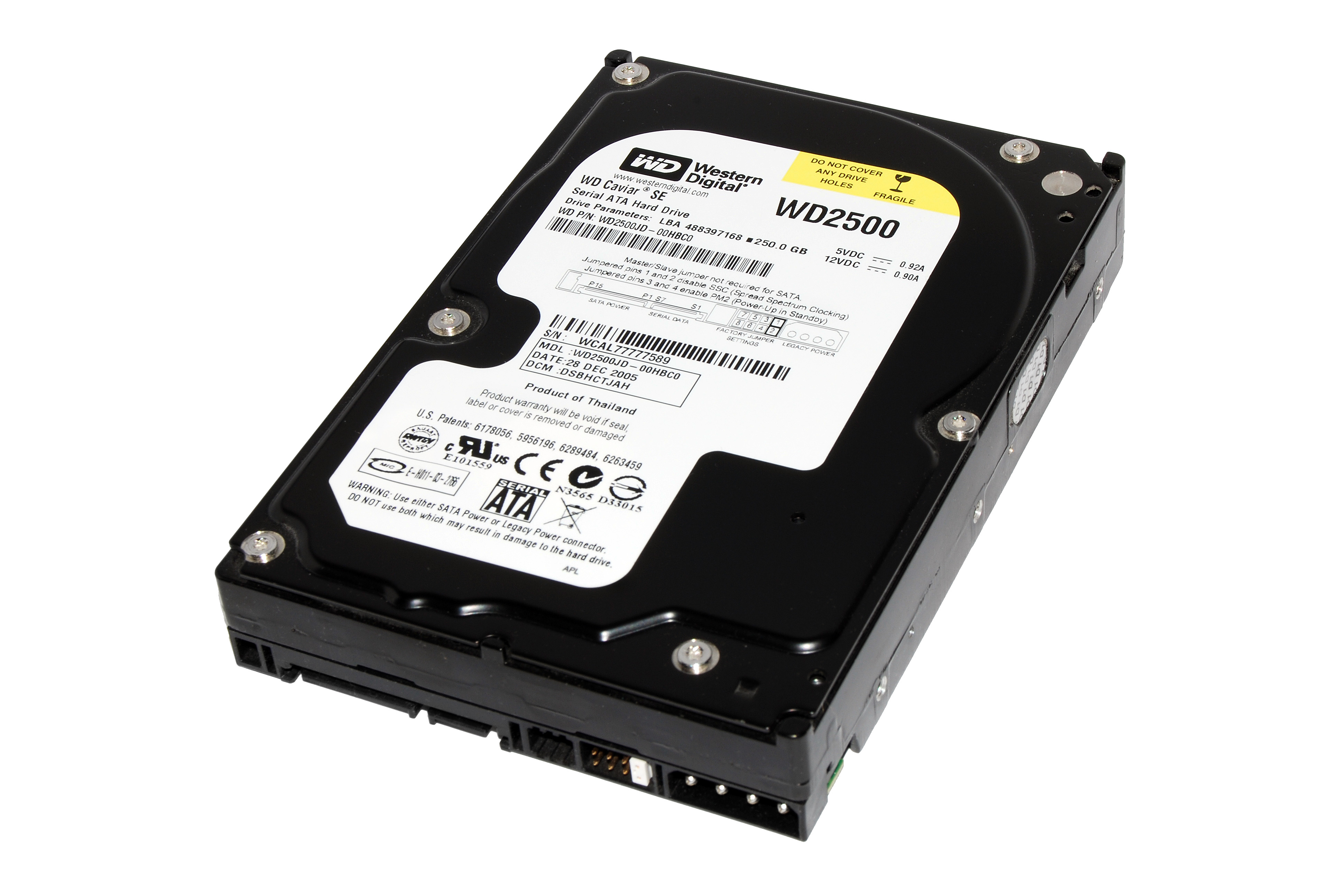 Western Digital 250GB SATA hard drive WD2500JD-00HBC0 made on December 28, 2005. Photo taken by myself and processed using Adobe Photoshop CS3.